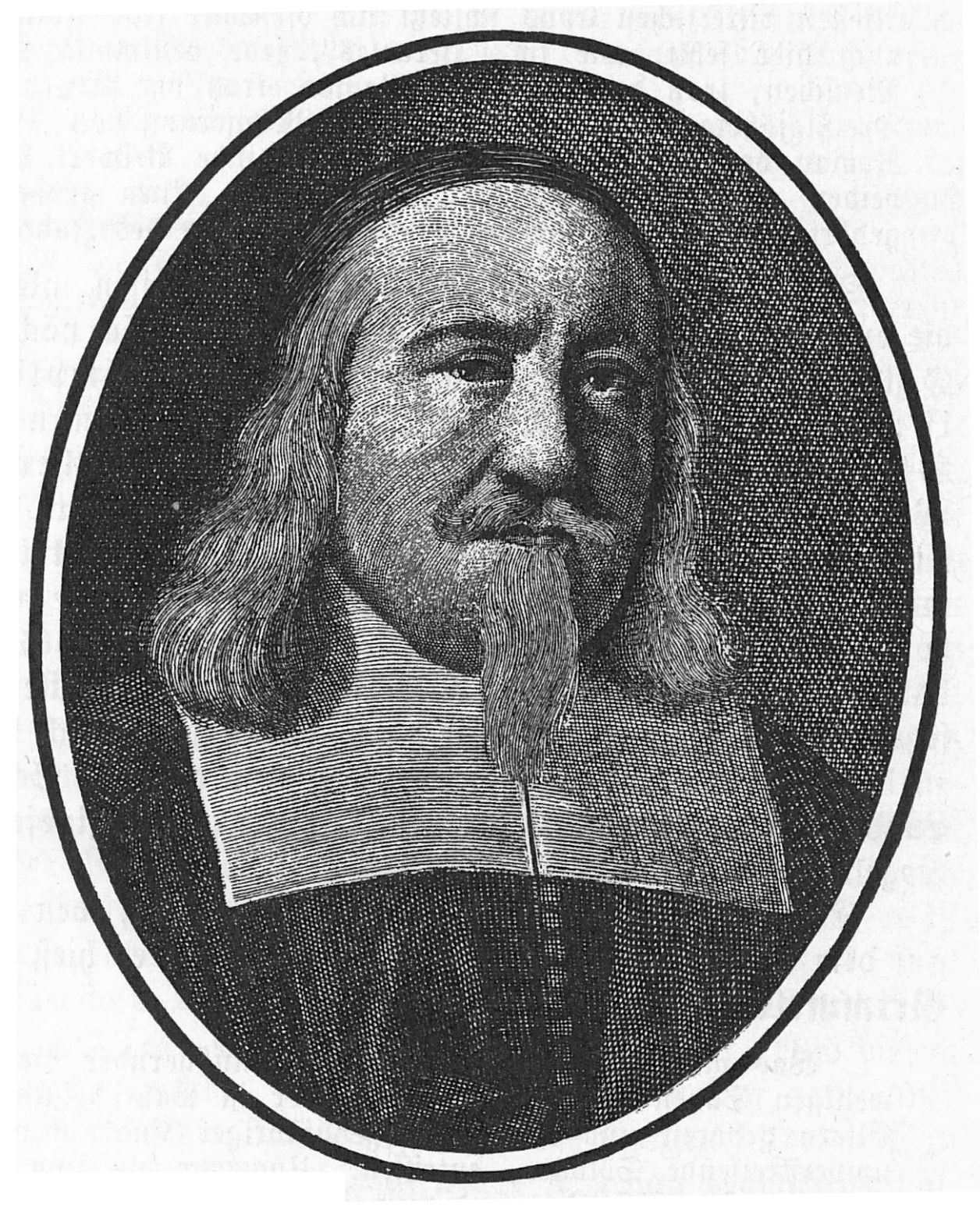 The German theologian and Baroque writer Andreas Heinrich Bucholtz (1607-1671), engraving by Philipp Kilian (1628-1693)